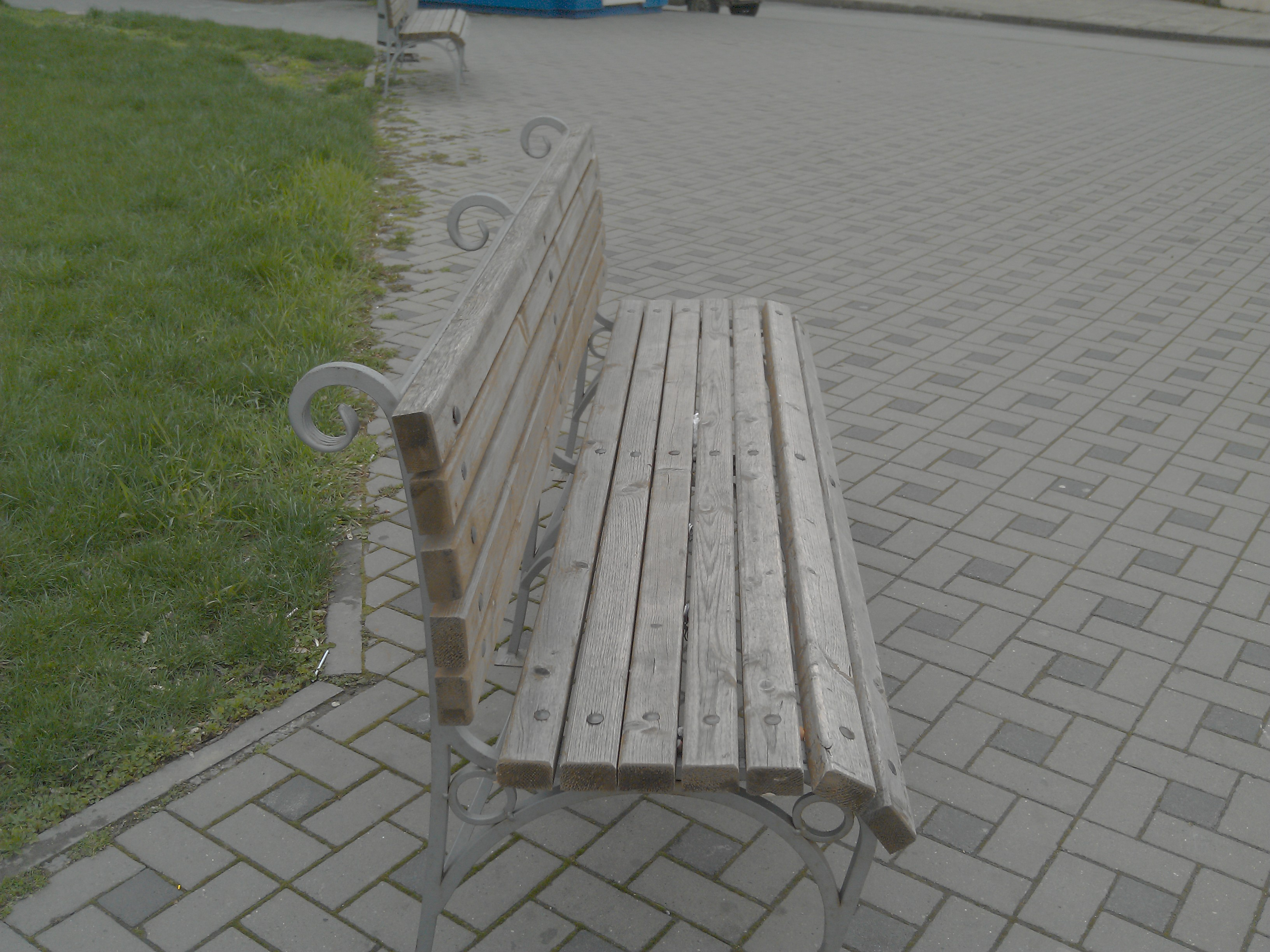 Bench in Anapa, Russia